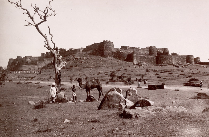 Photograph of Jhansi Fort taken in 1882 by Lala Deen Dayal, from the Lee-Warner Collection: 'Scenes and Sculptures of Central India, Photographed by Lala Deen Diyal, Indore.' The East India Company assumed control of the fort after the death of Raja Gangadhar Rao in 1853. In 1857, the fort was taken over by rebel forces. Although the Rani of Jhansi, Lakshmi Bai, who had been disposed, was not successful in controlling of the fort, she nonetheless defended it against British recapture, which eventually took place in 1858.